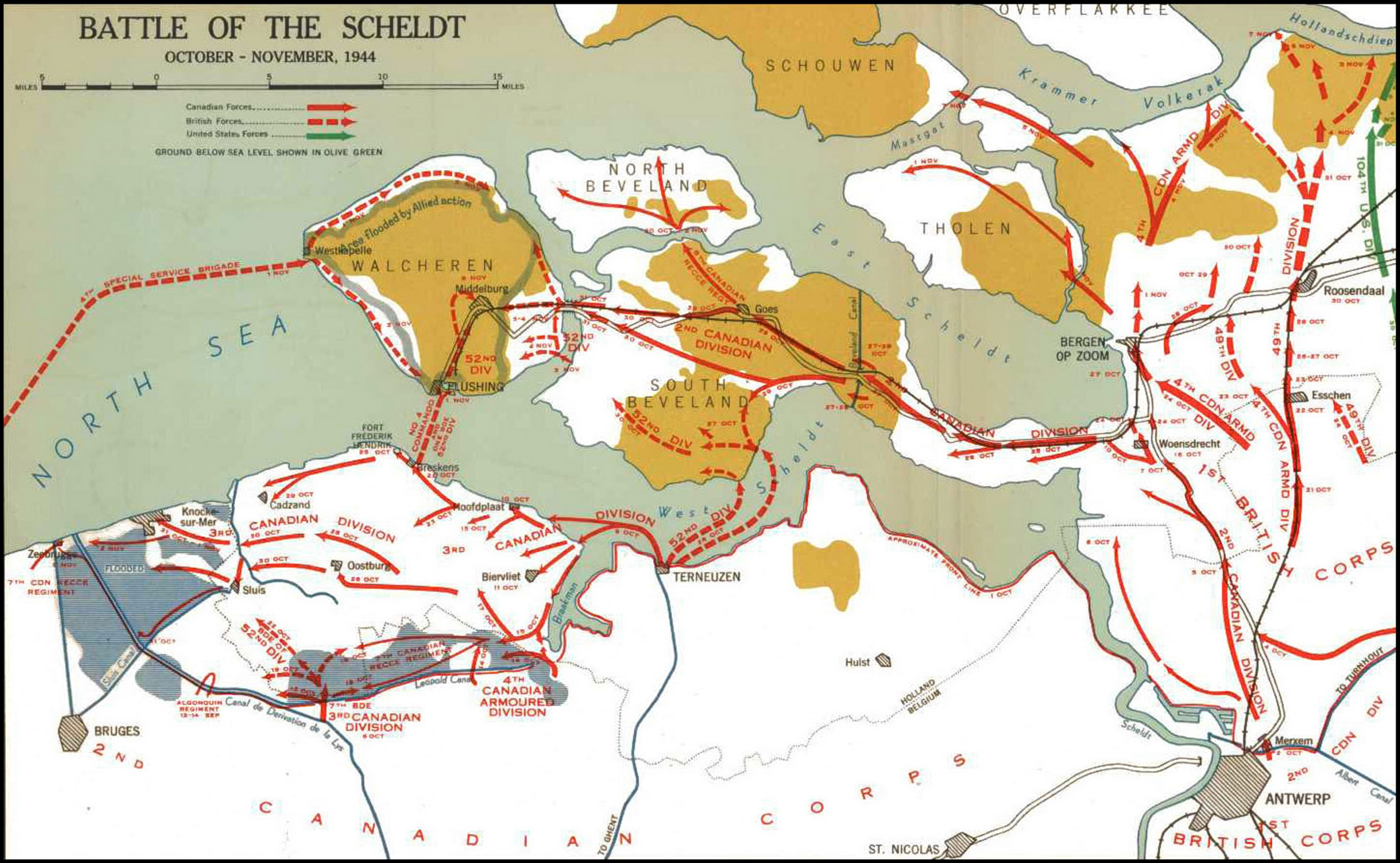 Battle of the Scheldt (Oct-Nov 44)